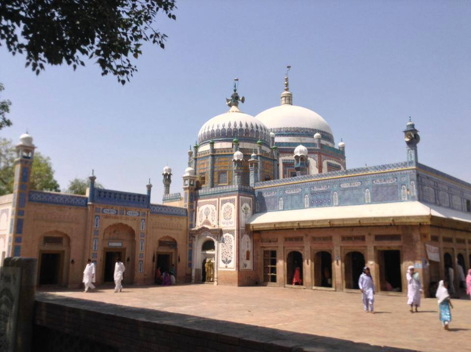 Shrine of Hazrat Khwaja Ghulam Farid This is a photo of a monument in Pakistan identified as the PB-P-197